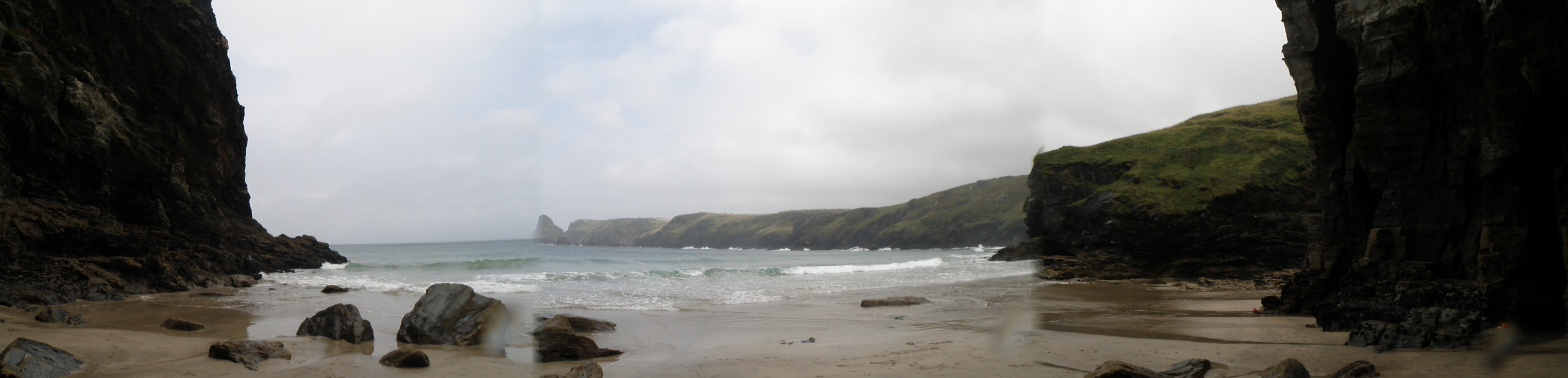 panoram taken from Bossiney Haven